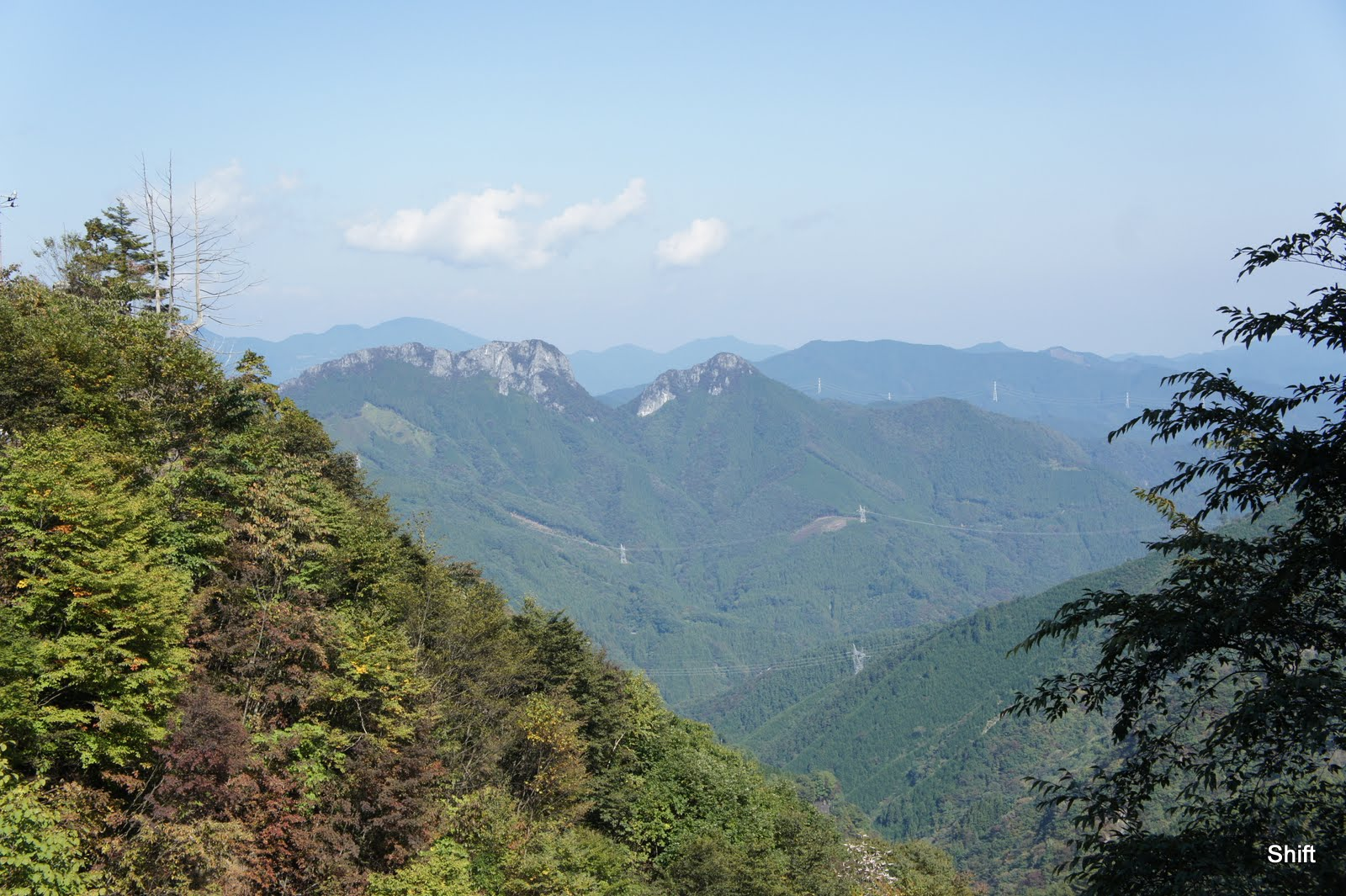 The SSW side of Mount Futago.